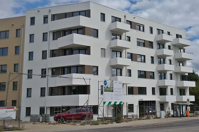 New block of the Ringelnatz settlement